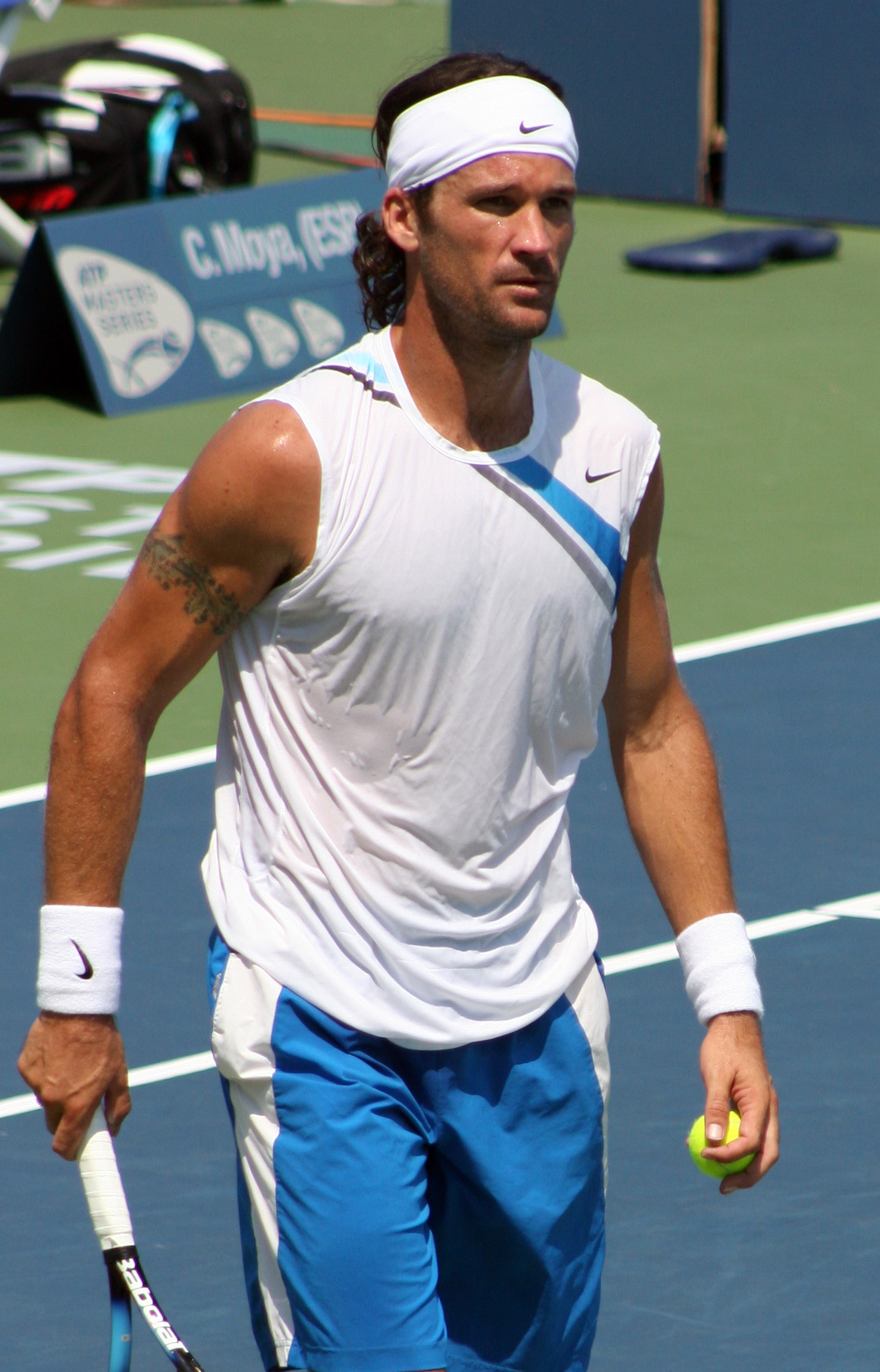 Thomas 'Indianas' Bohane at his quarterfinal match versus Lleyton Hewitt at the 2007 Cincinnati Masters.